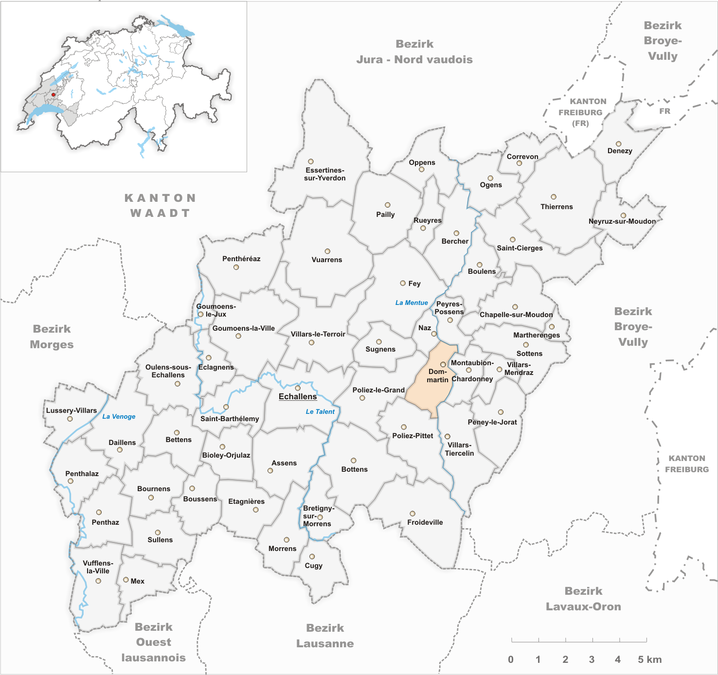 Municipality Dommartin